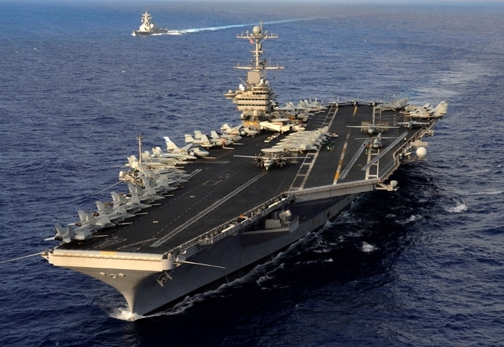 USS John C. Stennis (CVN-74) and USS O'Kane (DDG-77) (background) steam in formation during a photo exercise showcasing the entire John C. Stennis Carrier Strike Group (JCSSG).